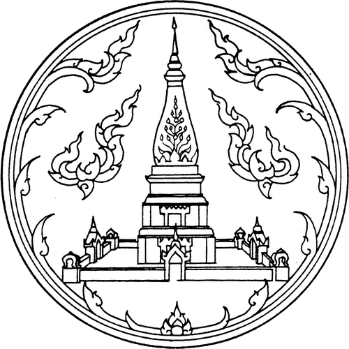 Provincial seal of Nakhon Phanom province.